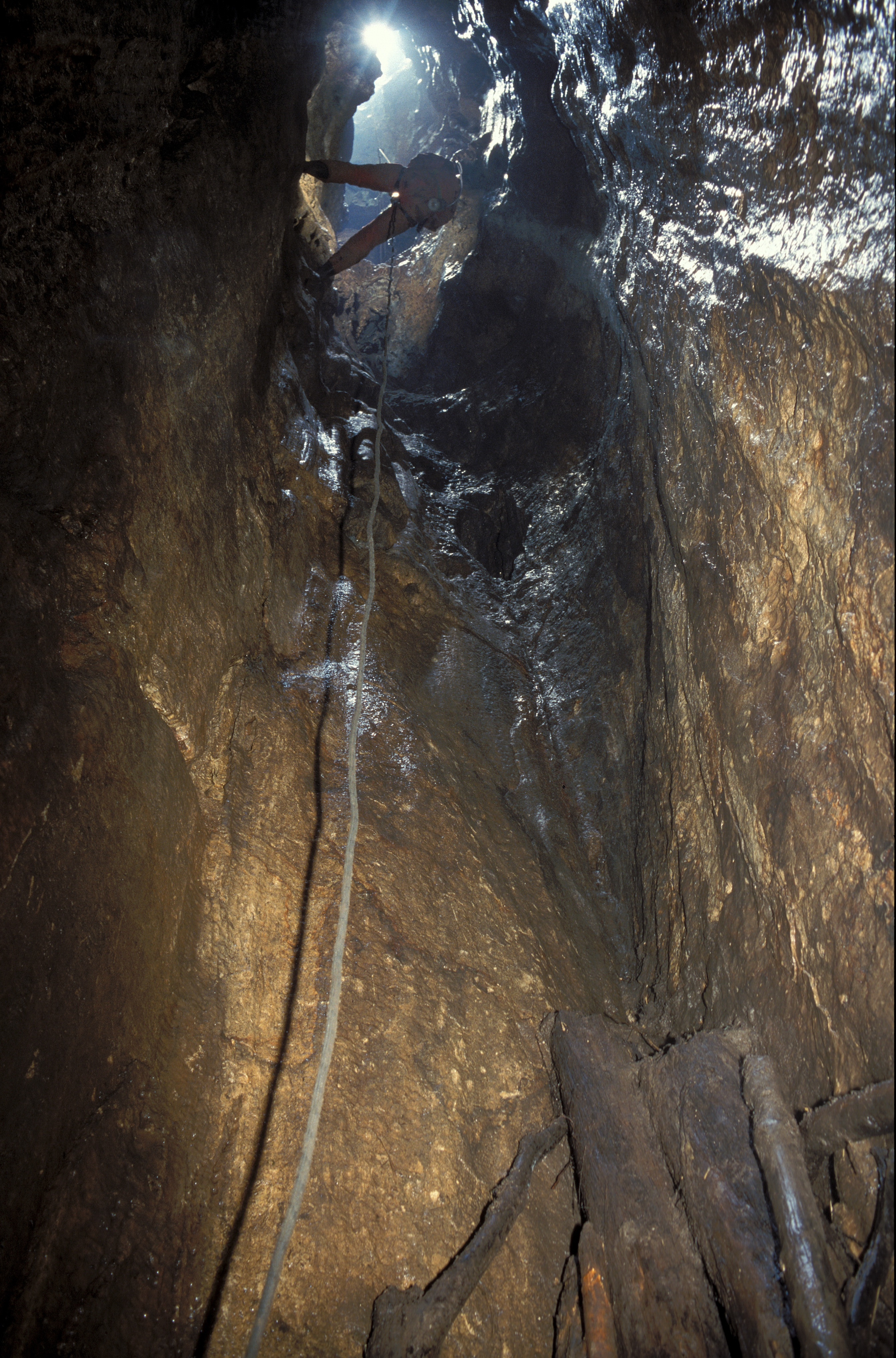 Entrance Pit in Miners Cave, Hungary, Bükk Mountains